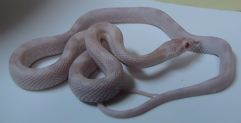 Photographer: LA Dawson "Opal" phase Corn Snake (Pantherophis guttatus)